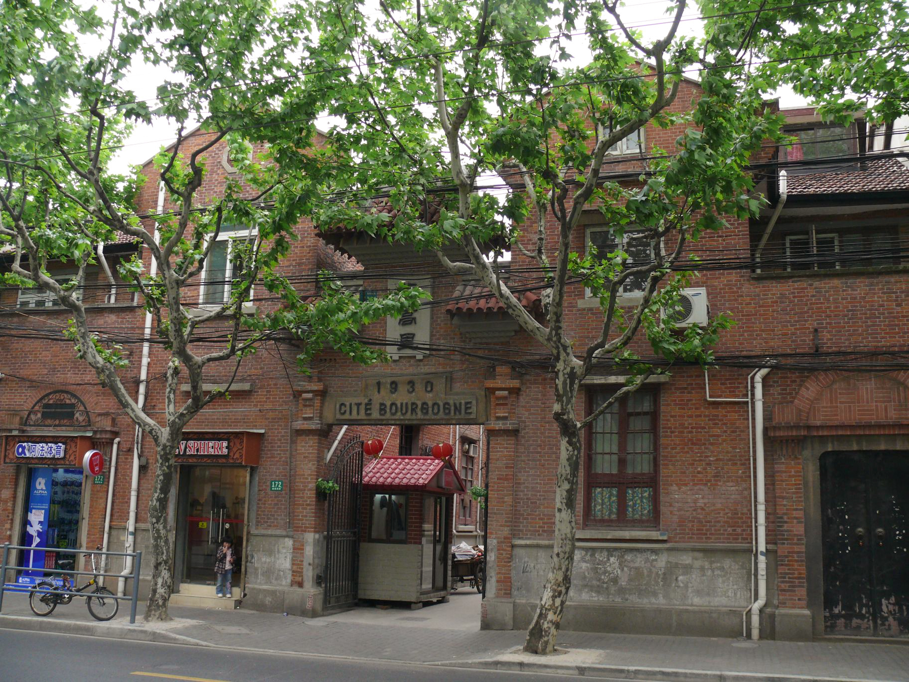 "Cité Bourgogne", a lilong (里弄) in Shanghai (China).